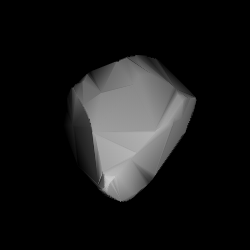 3D convex shape model of 3428 Roberts, computed using light curve inversion techniques. J. Hanuš, J. Ďurech, M. Brož, B. D. Warner (June 2011). "A study of asteroid pole-latitude distribution based on an extended set of shape models derived by the lightcurve inversion method". Astronomy and Astrophysics 530: A134. ISSN 0004-6361. arXiv